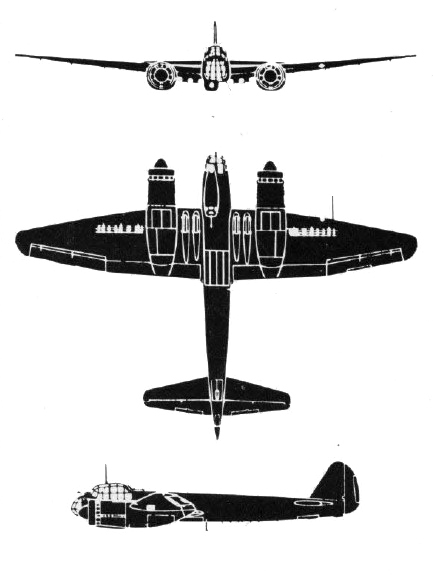 3-side drawing of a German Junkers Ju 88A bomber.